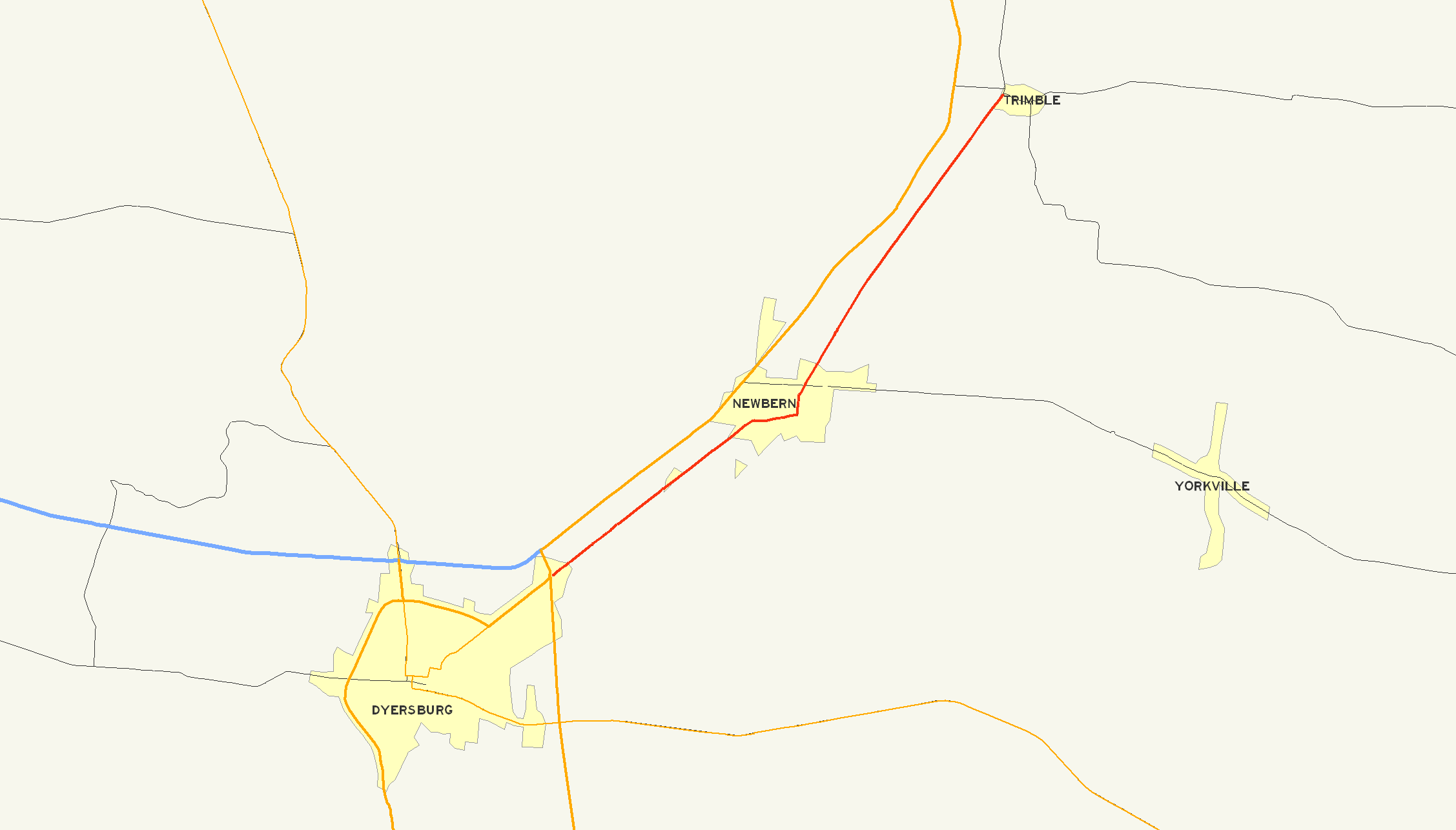 Map of Tennessee State Route 211